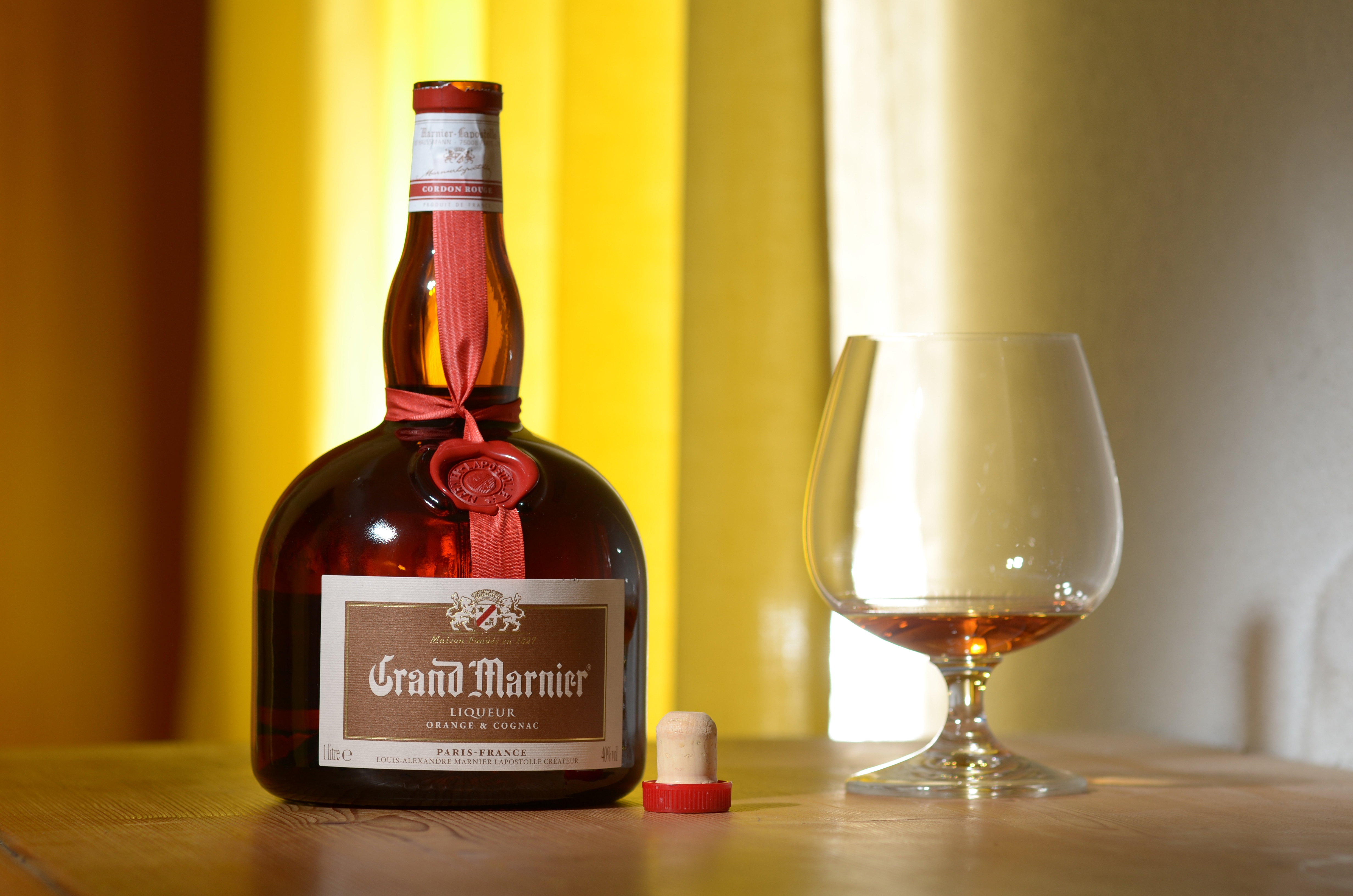 A 1 l bottle of Grand Marnier, Cordon Rouge (Red Label)